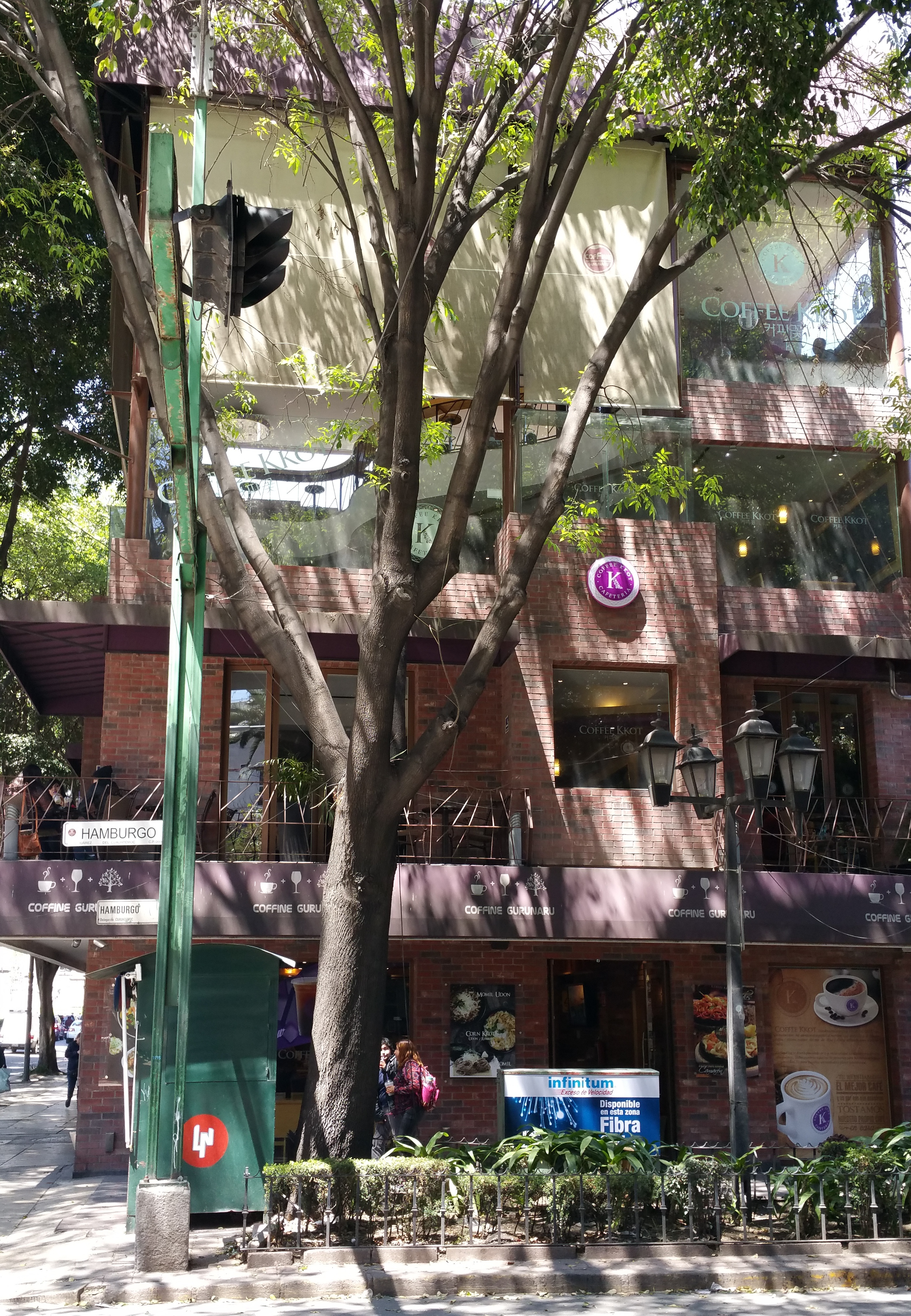 Pequeño Seúl street signs, Mexico City.